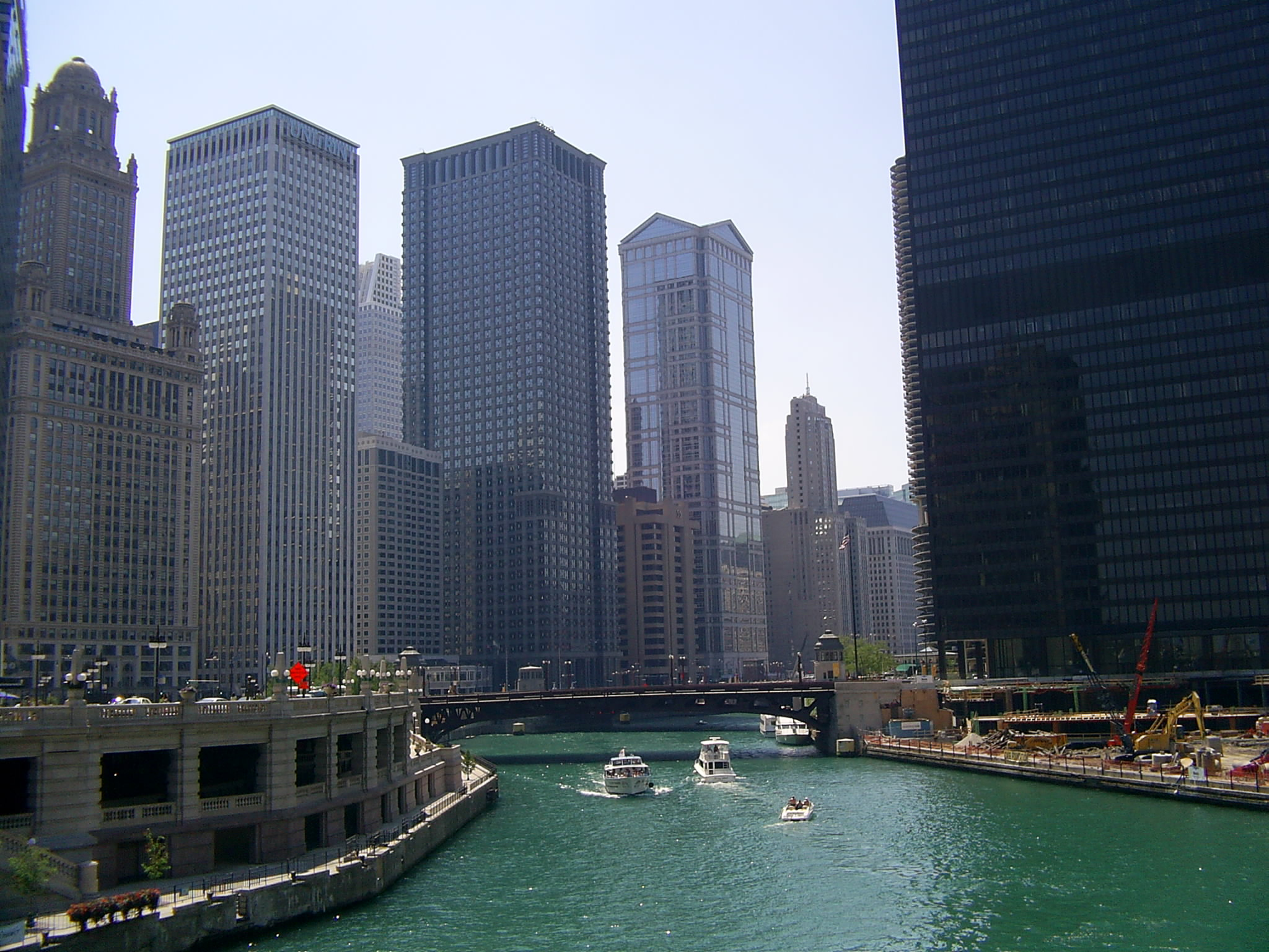 Picture taken August 7, 2005 by me. Looking west on the Chicago River from Michigan Avenue Bridge.